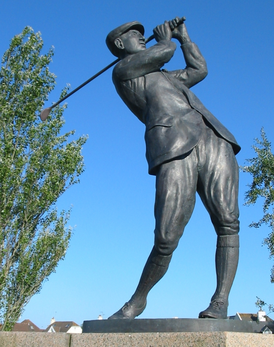 Jersey, 22 June 2009